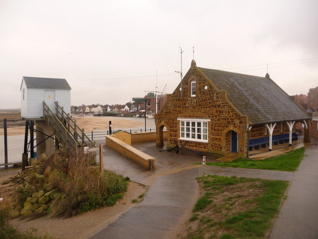 Wells-next-the-Sea: the harbour office Looking across the harbour past the rear of the harbour office. The building on the left is a tide gauging station.